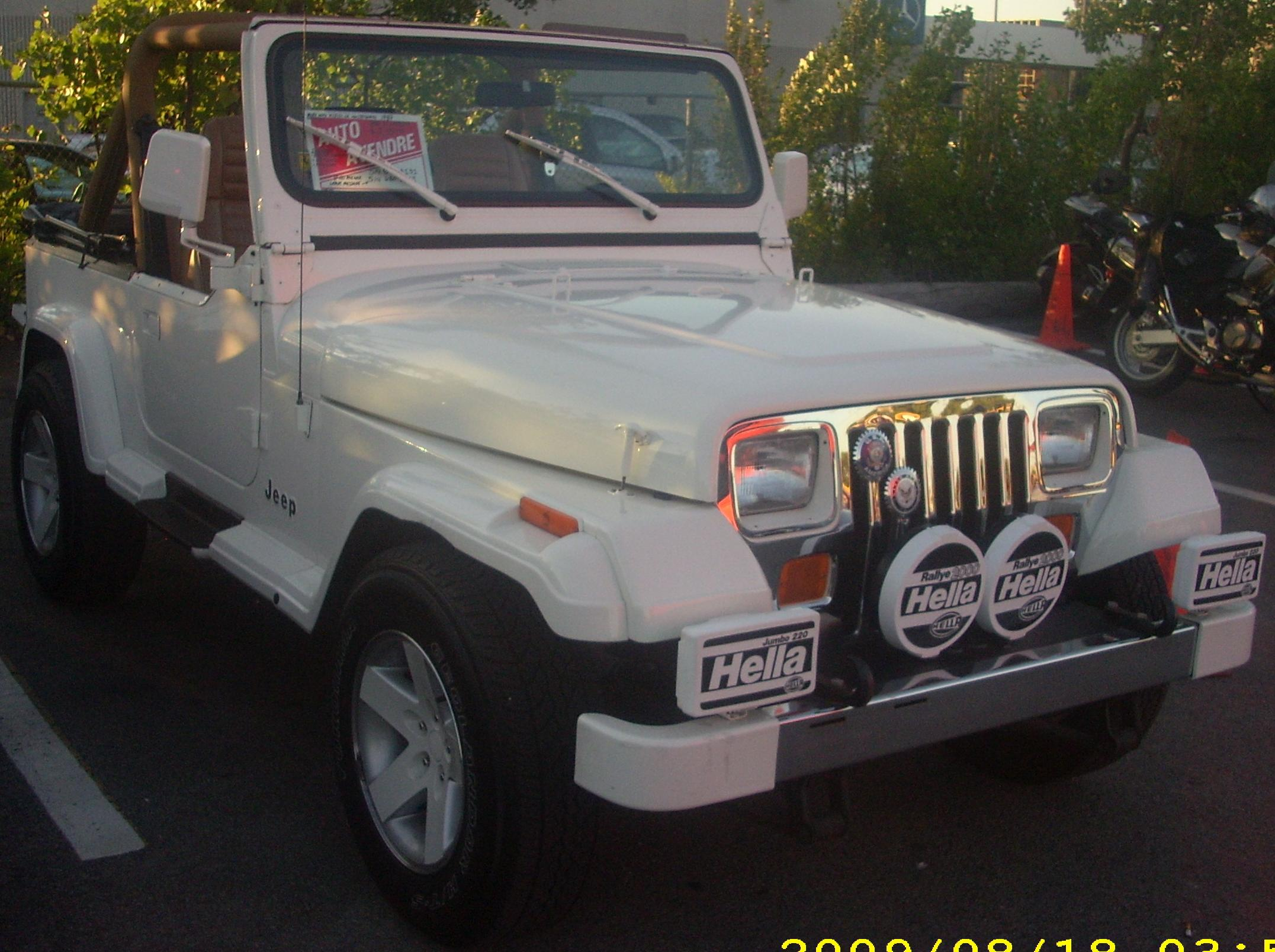 Jeep Wrangler (YJ) photographed in Montreal, Quebec, Canada at Gibeau Orange Julep.